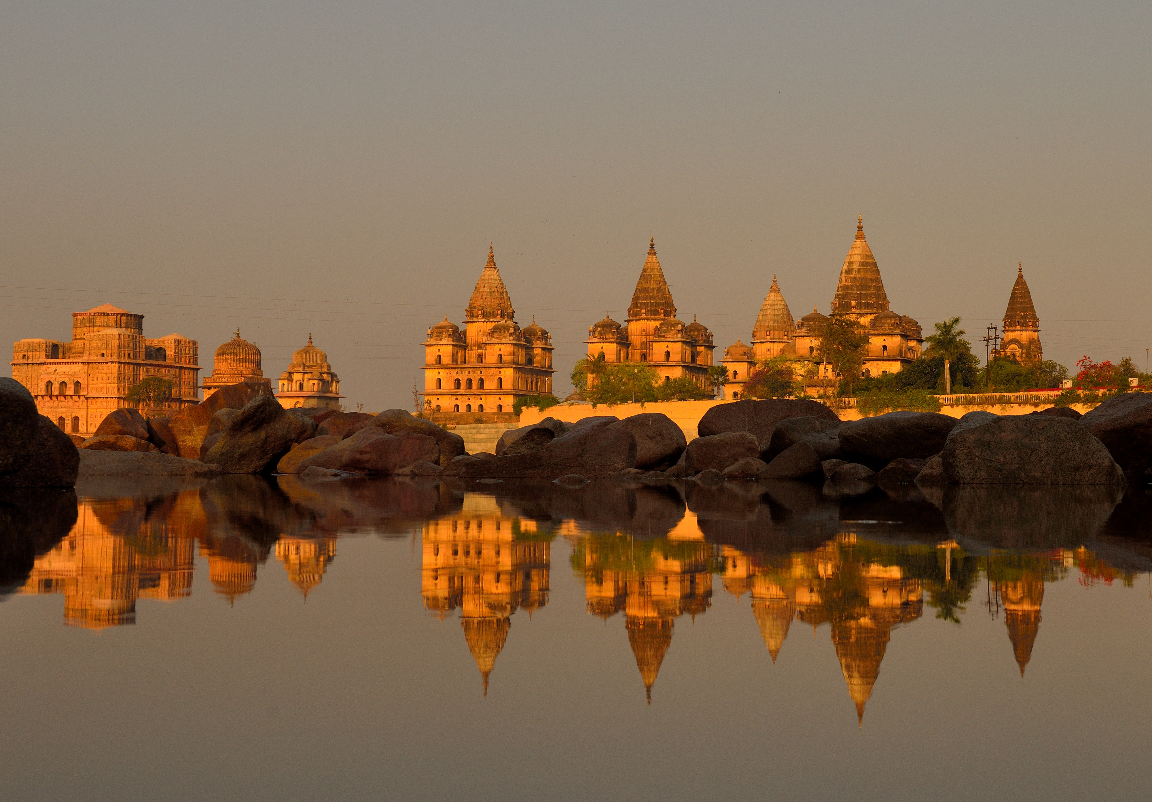 Chhatris (Cenotaphs) on the bank of Betwa River, Orcha, Madhya Pradesh. Photography by